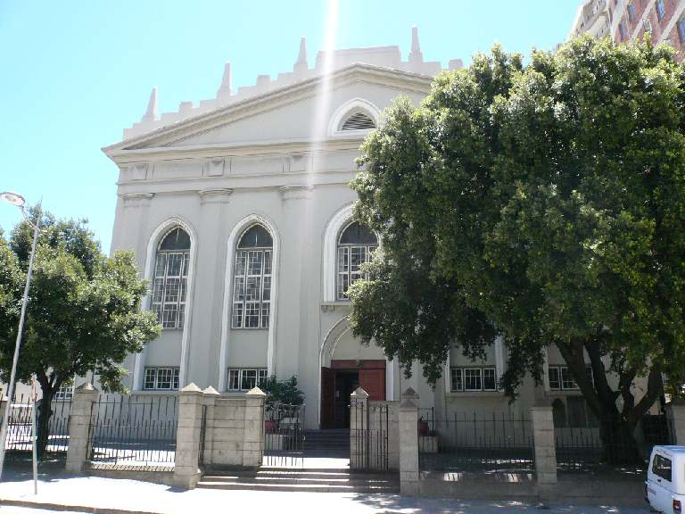 Groote Kerk (ned.ref.), Centre, Capetown, ZA